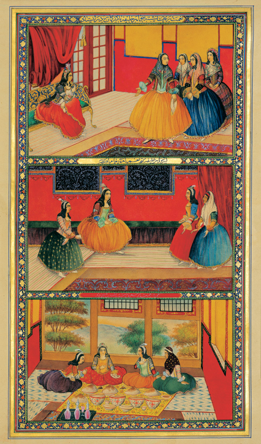 Illustration from "One Thousand and One Nights"